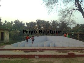 বাজিতপুর স্মৃতিসৌধ